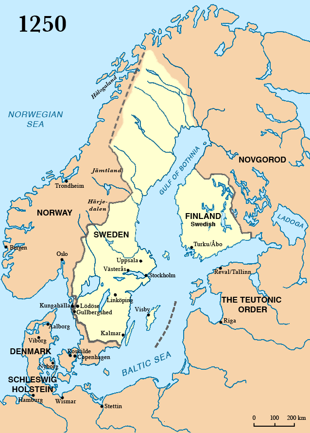 Sweden and neighboring countries in circa 1250. Incorrect. The colonialization of Lappland did not start until after 1670. Norrbotten was not colonialized until after 1330. The borders are not exact. The Finnish eastern border is not regulated by treaty, the line rather indicates the border of Swedish conquest. The Norwegian-Swedish border was regulated in a meeting between the Swedish King Valdemar Birgersson and the King of Norway Magnus VI the law-mender which took place in Sarpsborg, Norway 1273. The extent of the Swedish northern borders remained uncertain, and were not settled until 1751. Source: Sundberg, Ulf (1997) (in Swedish). Svenska Freder och Stillestånd 1249-1814. Arete. ISBN 91-89080-01-7. p. 20.